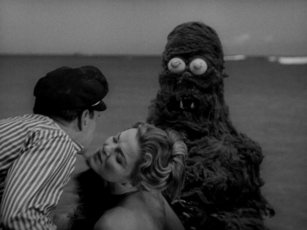 A screenshot from the film Creature from the Haunted Sea. This film is in the public domain in the United States. Taken from my personal DVD copy.